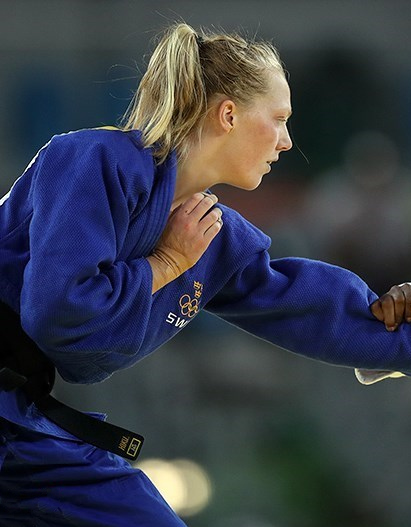 2016 Summer Olympics Judo, August 9